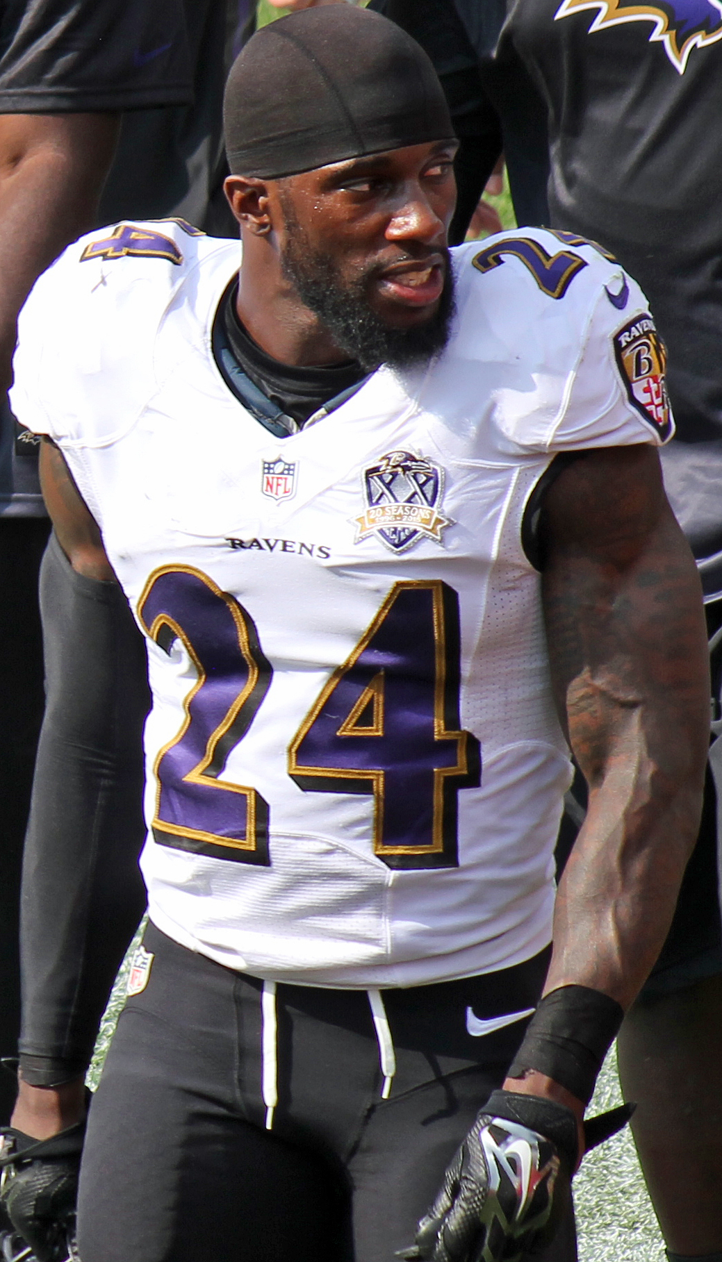 Kyle Arrington, a player on the National Football League.